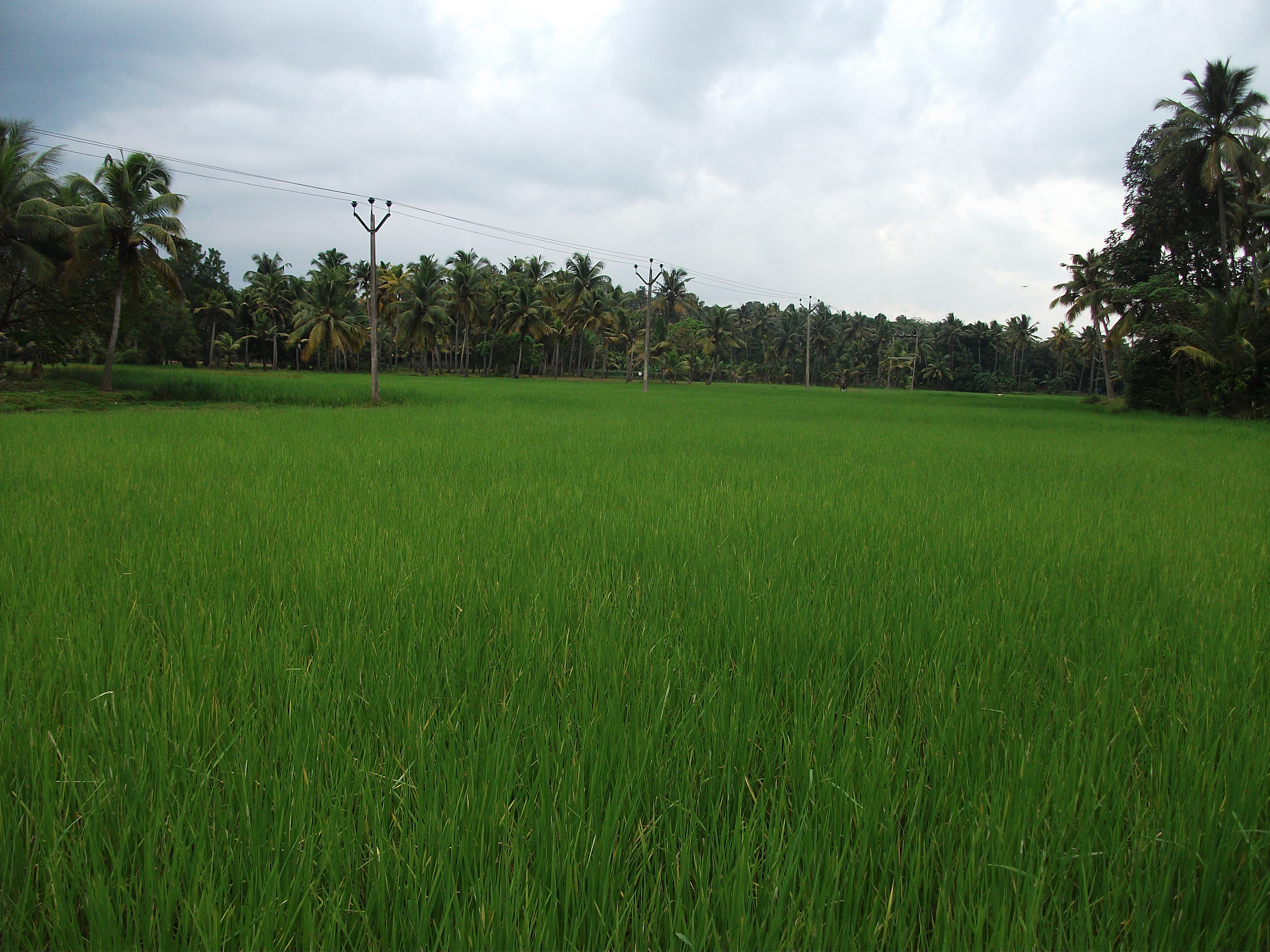 Ithikkara paddy field